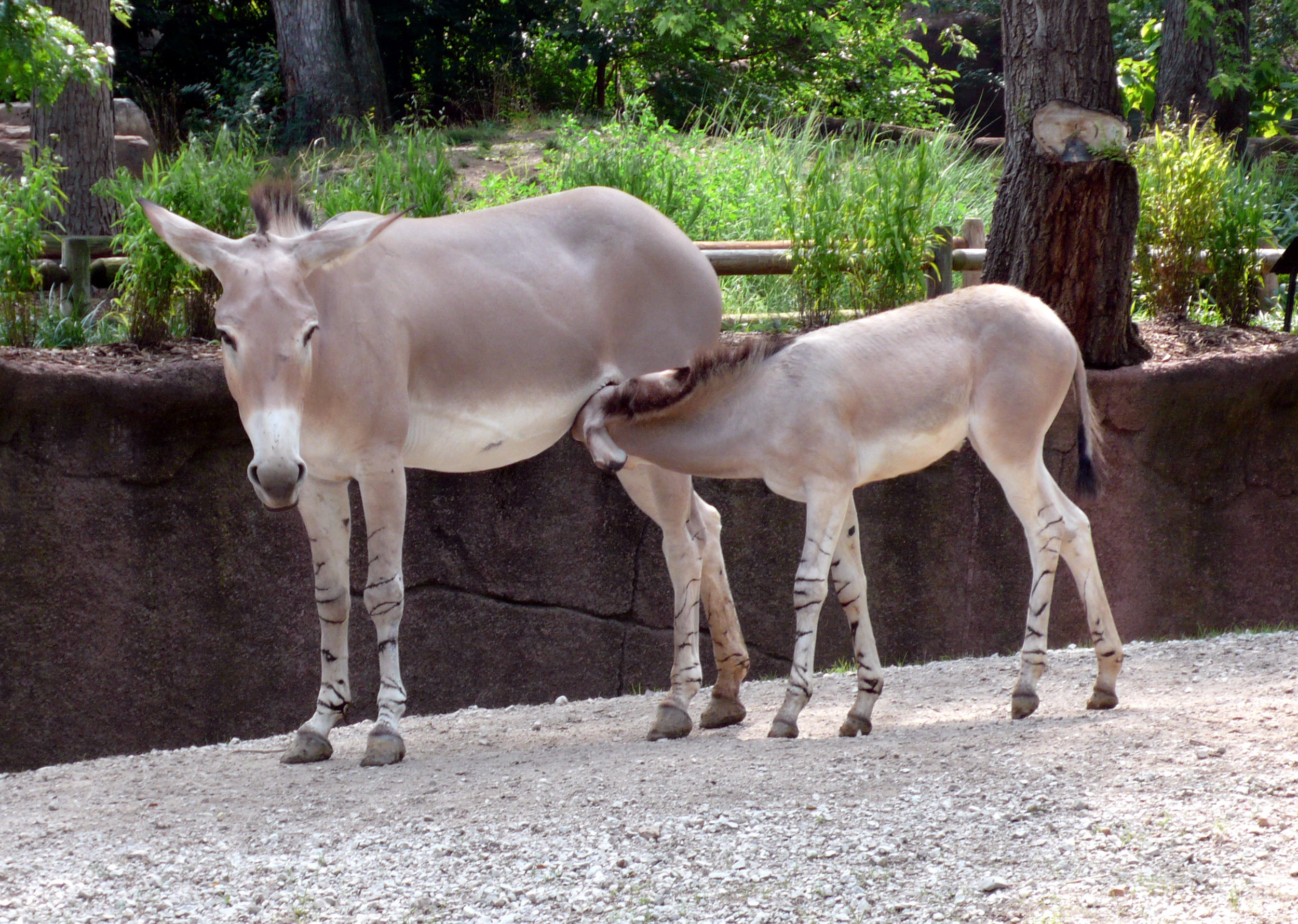 Somali Wild Ass (Equus africanus somalicus) mother and foal